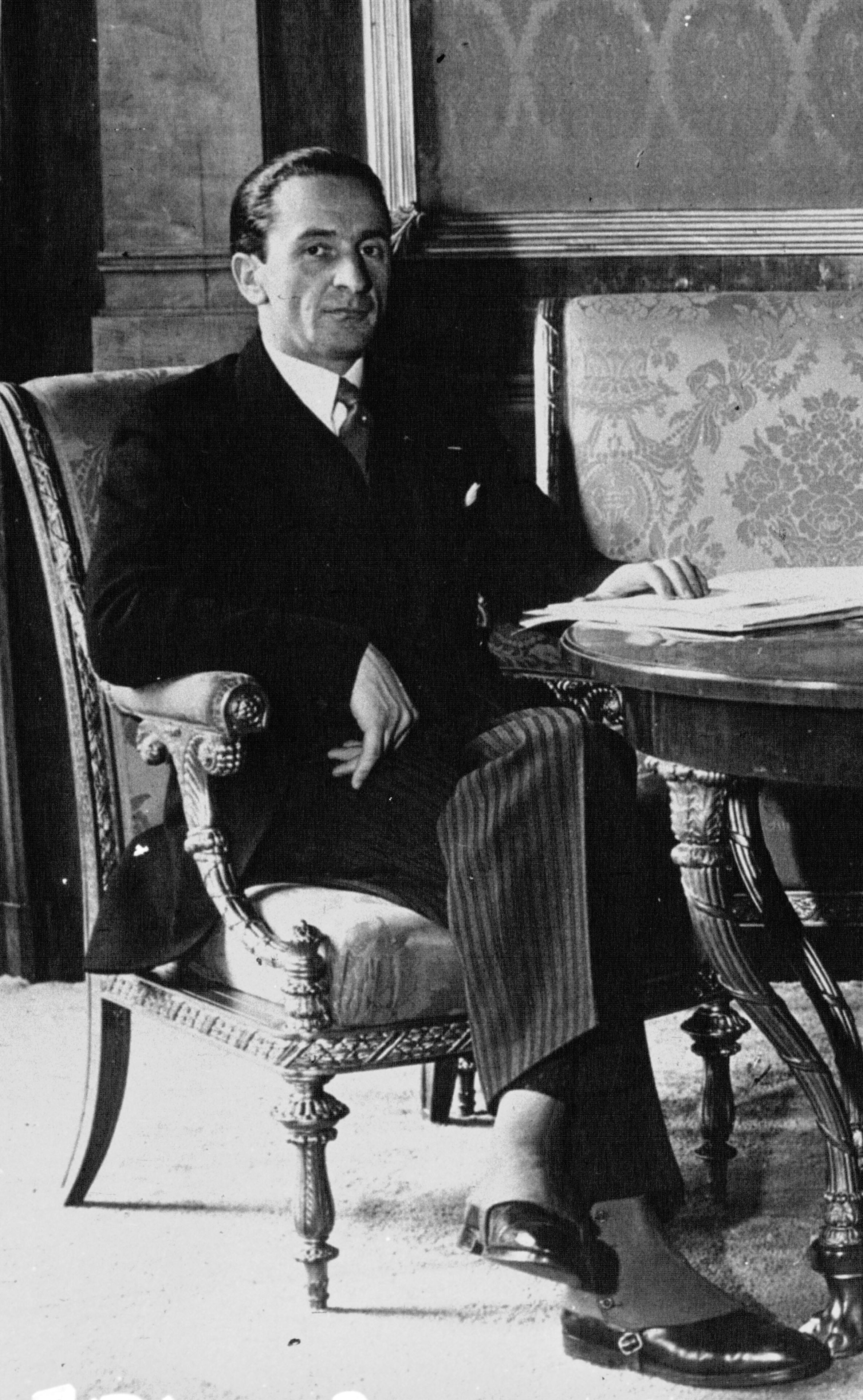 Austrian Foreign Minister Guido Schmidt at the opening of the Austro-Italian Conference in 1936.